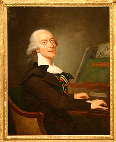 Honoré Francois Marie Langlé, composer (1741-1807), Monaco National Art Museum